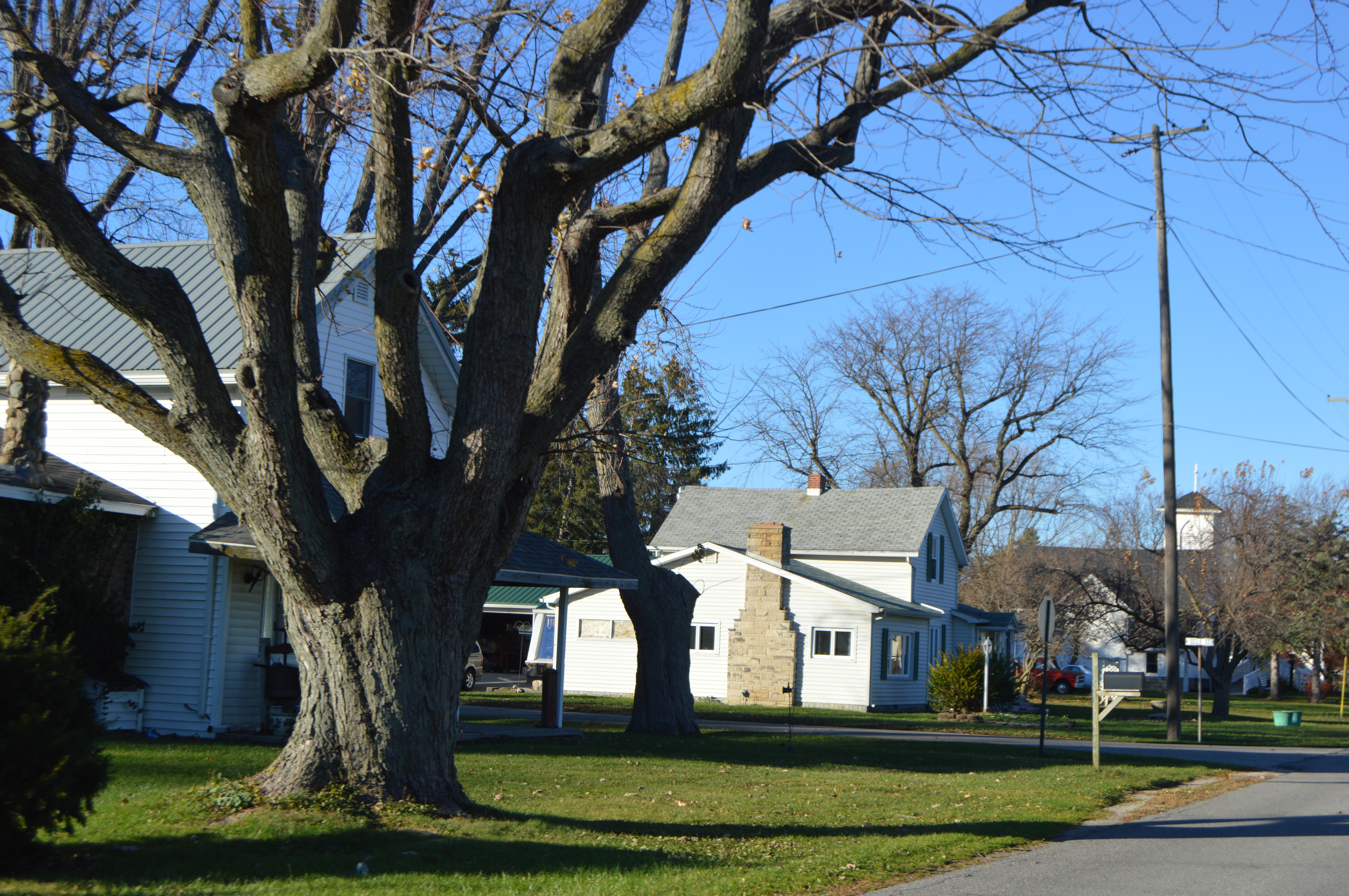 Houses on the western side of Main Street south of the Leslie Street intersection at Briceton in Paulding Township, Paulding County, Ohio, United States.